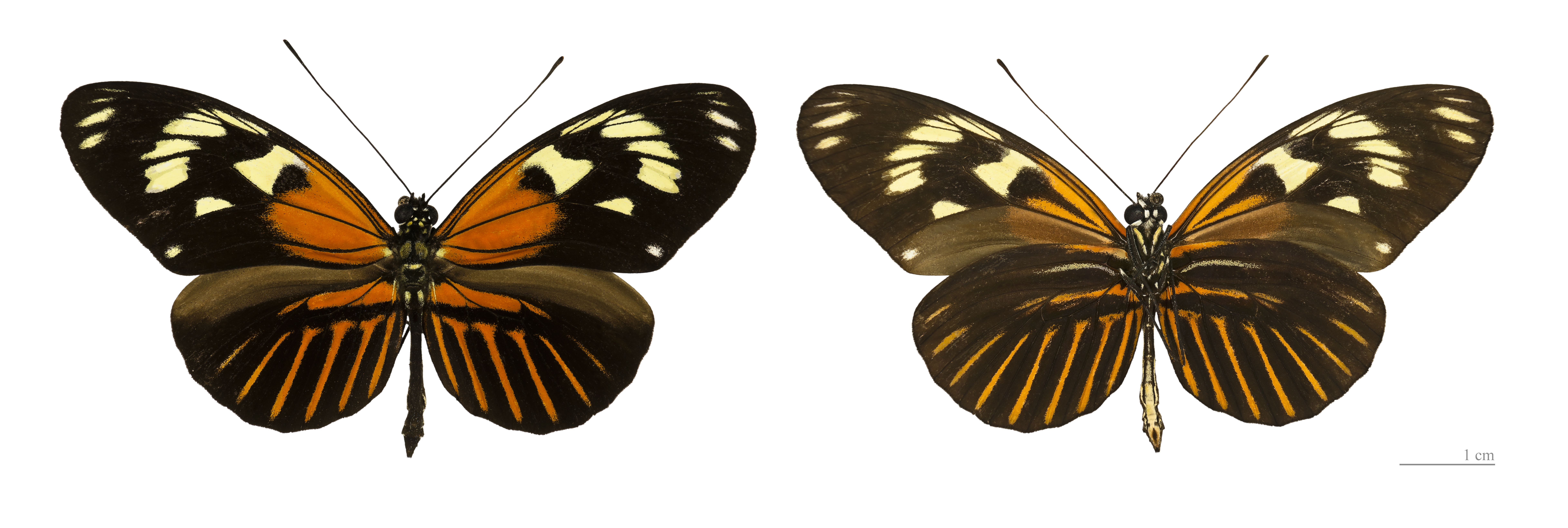 Heliconius elevatus bari - Two views of same specimen.